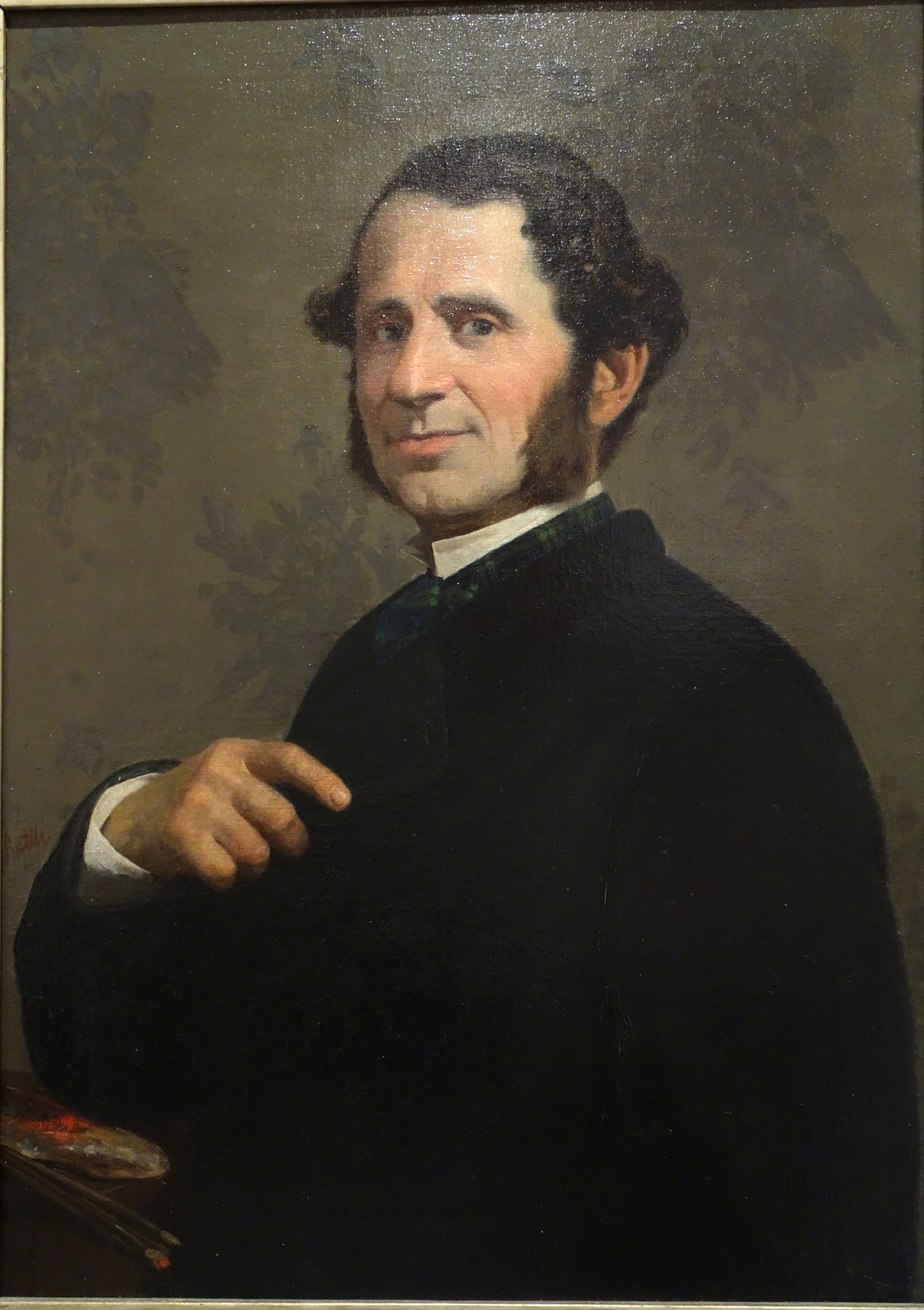 Portrait of the Painter Francesco Gandolfi